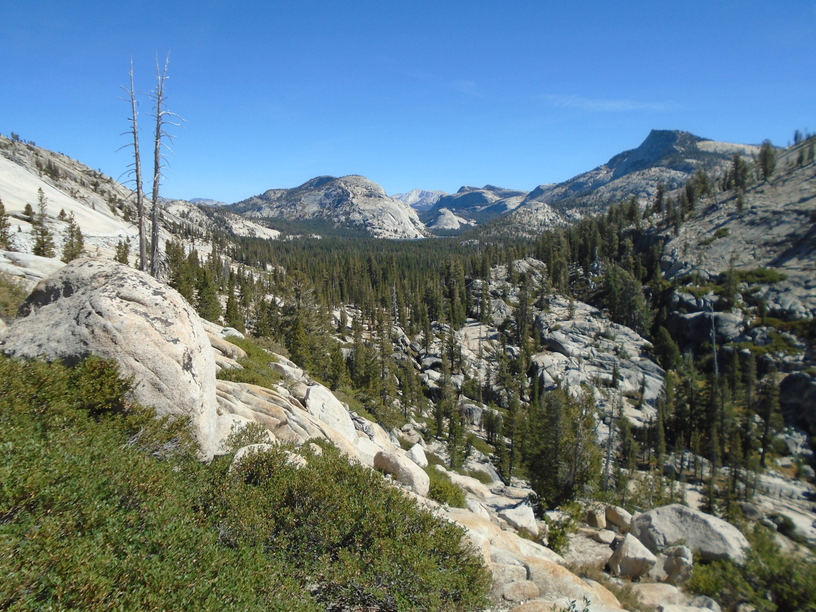 Central Sierra Nevada, California